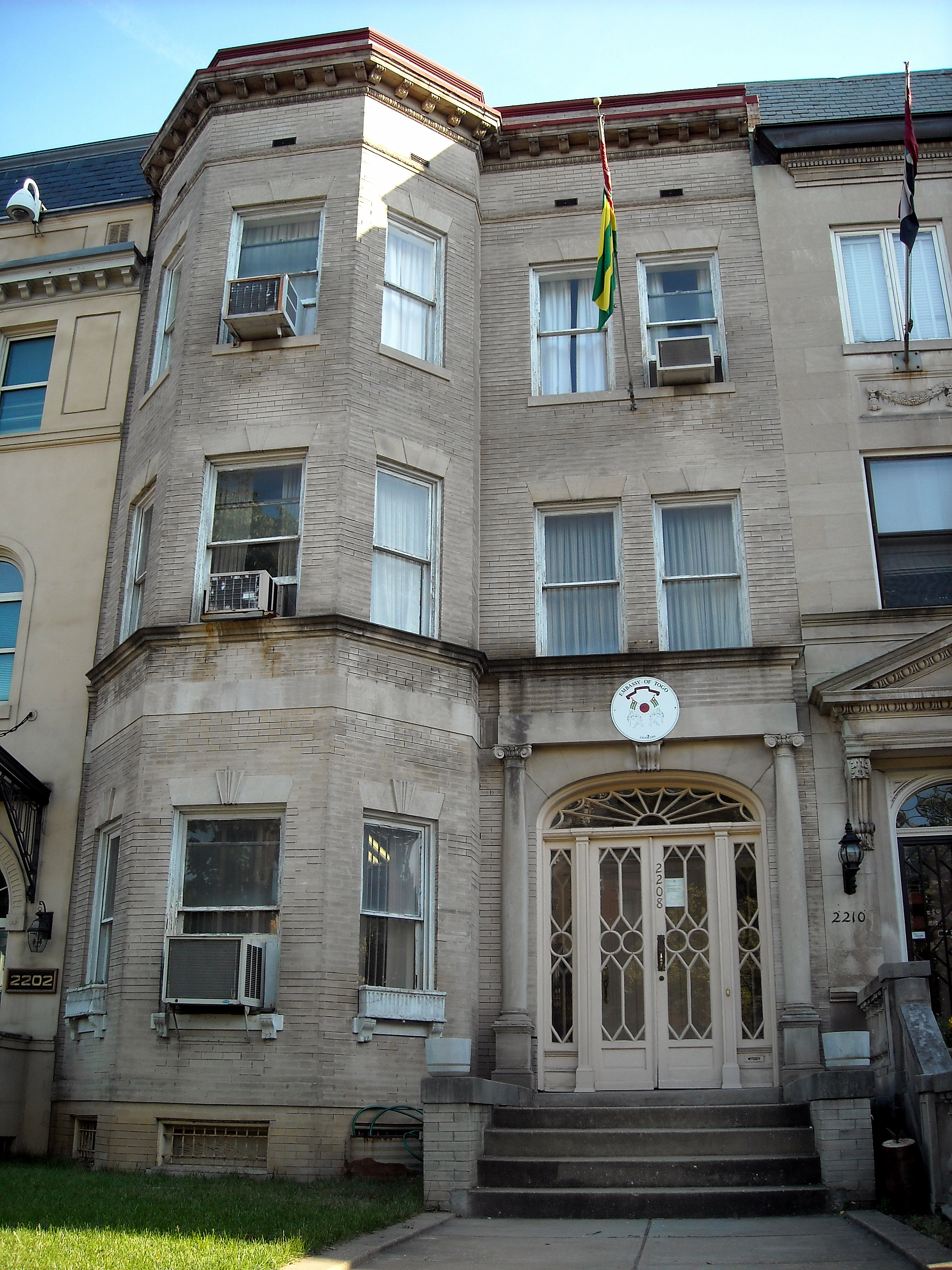 The Embassy of Togo at 2208 Massachusetts Avenue, NW in Washington, D.C. The building is located on Embassy Row, between Dupont Circle and Sheridan Circle.